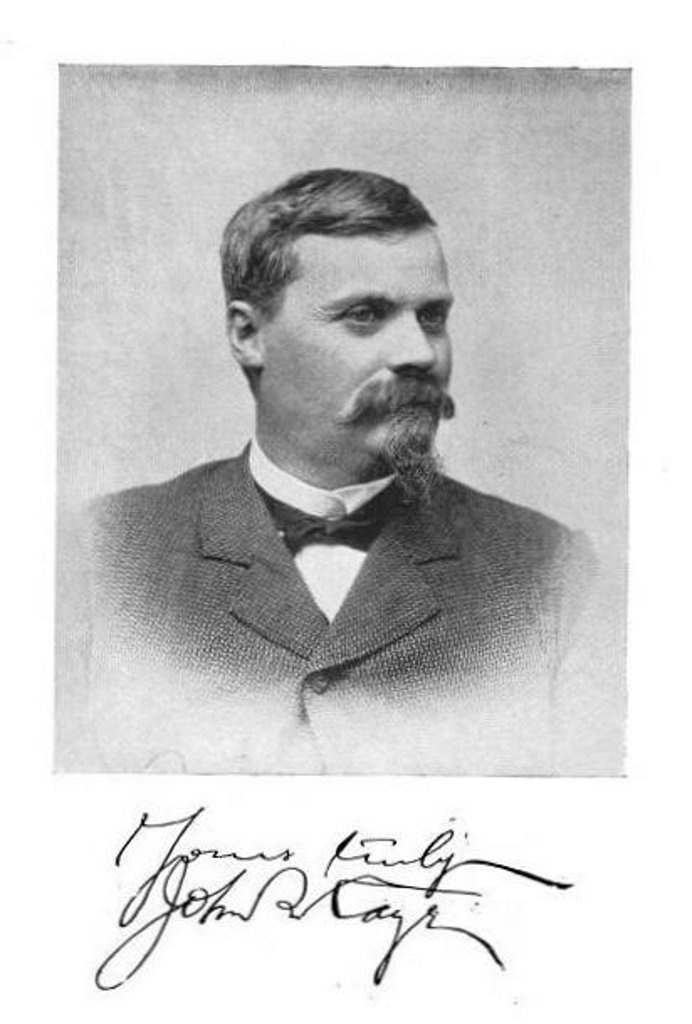 JOHN BRAYSHAW KAYE 1841 - 1890 Anglo-American poet